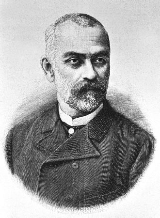 Angelos Vlachos (1838-1920): Greek politician and writer